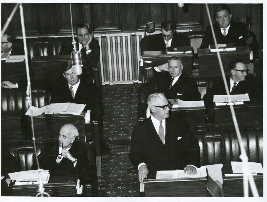 Parliament in session. Parliament publicity photograph. (1966) Photographer: Mr. Anderson Archives New Zealand Reference: AAQT 6539 W3537 R3602